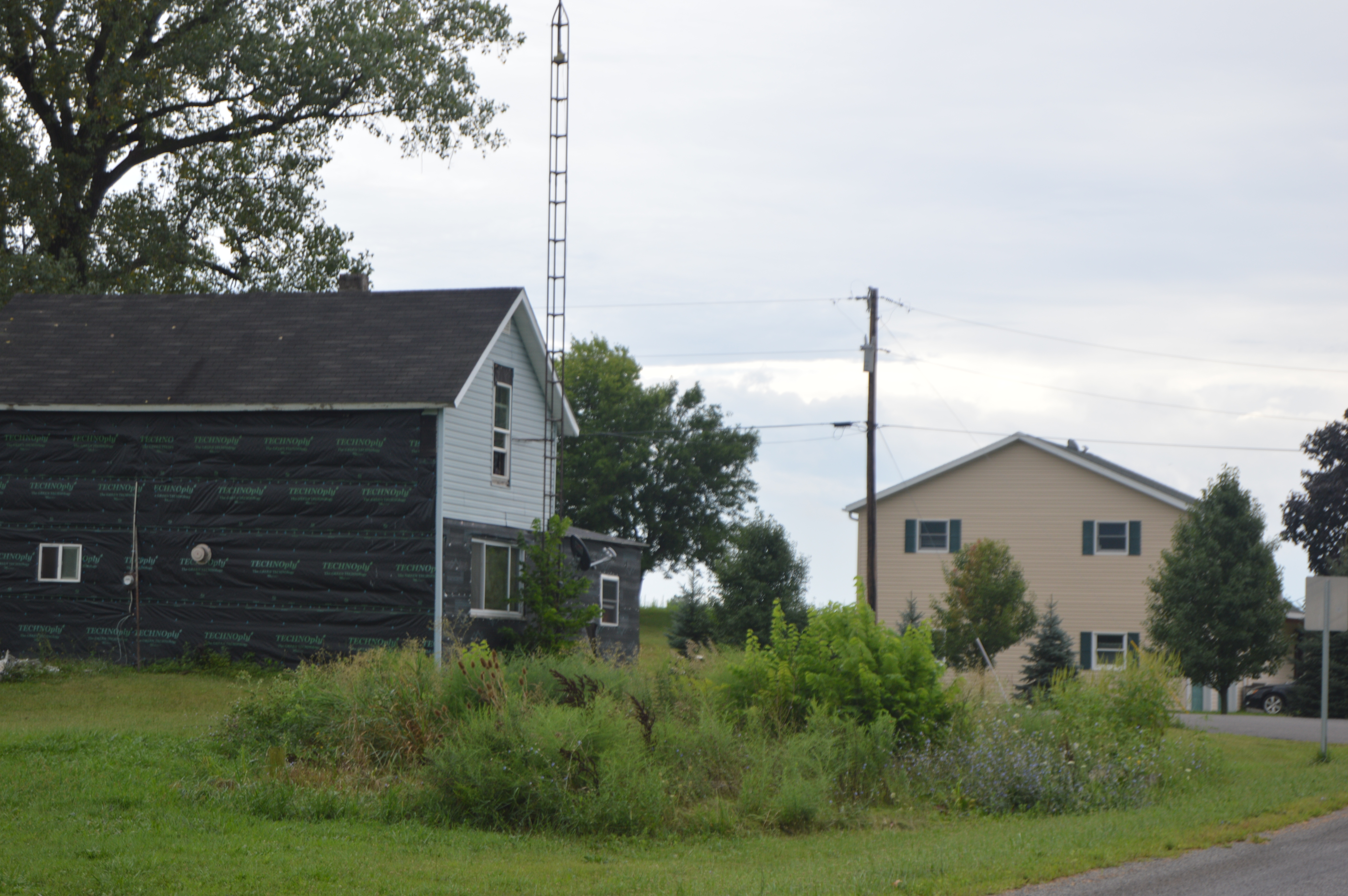 Houses on the eastern side of Township Road 55 at its intersection with County Road 150 (historically, an intersection called "Jump") in McDonald Township, Hardin County, Ohio, United States.